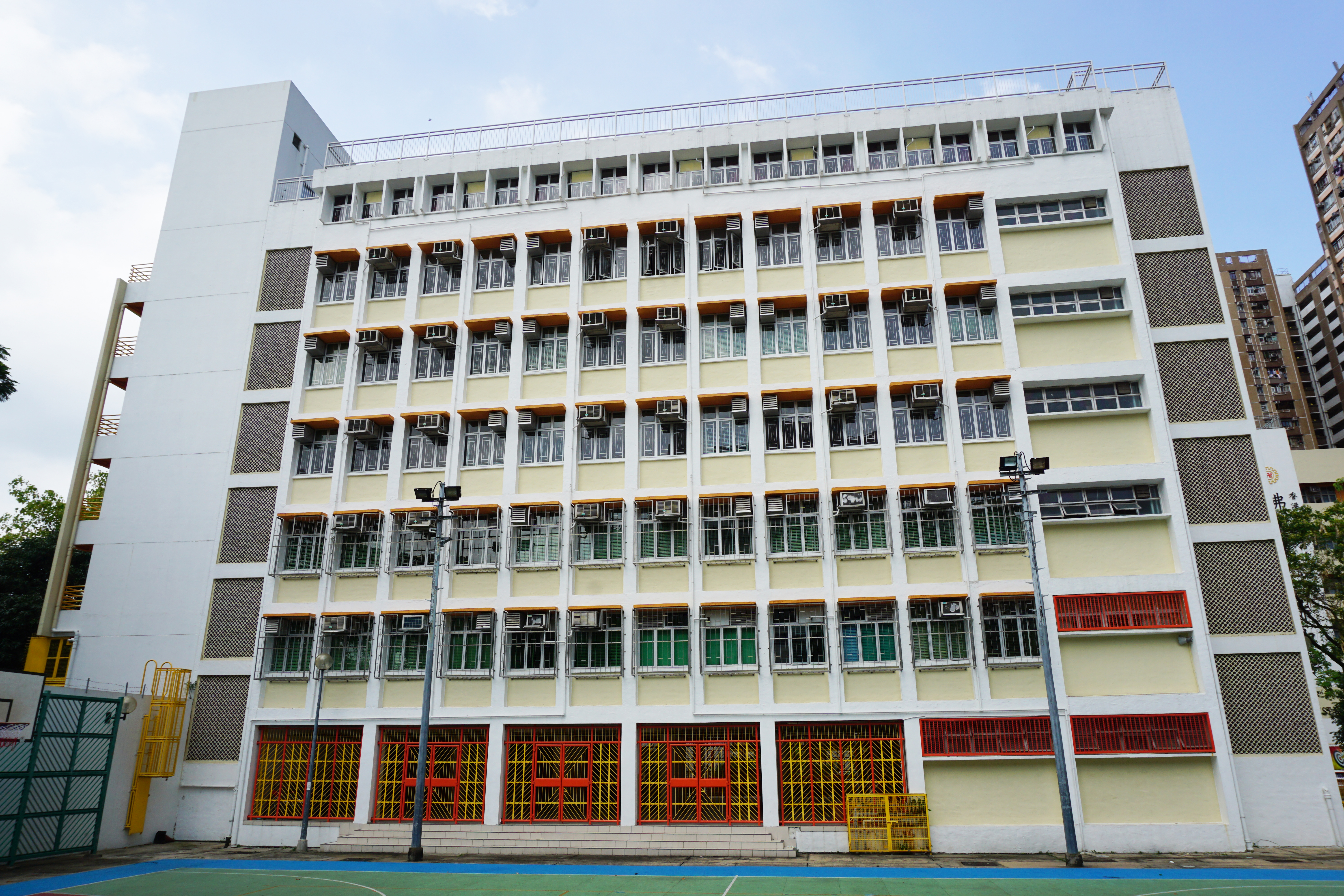 Buddhist Kok Kwong Secondary School in Sha Tin Wai, Hong Kong.